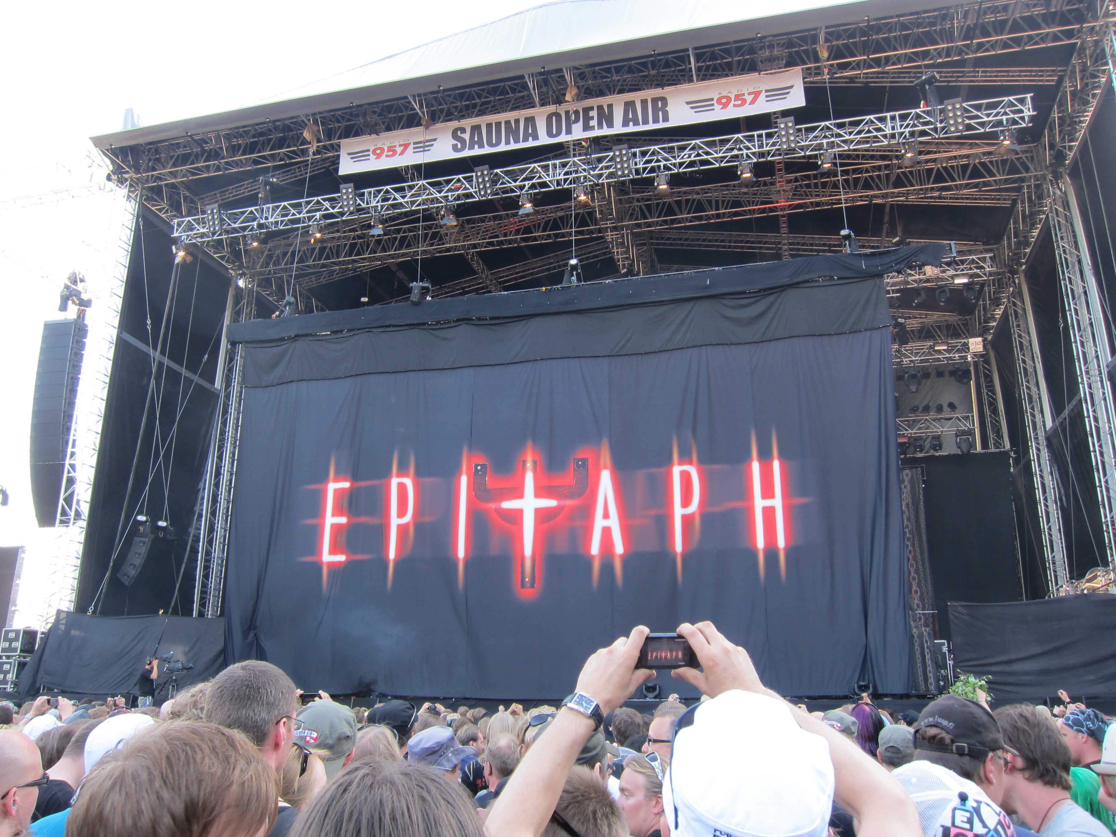 Judas Priest performing at the Sauna Open Air Metal Festival in Tampere, Finland.